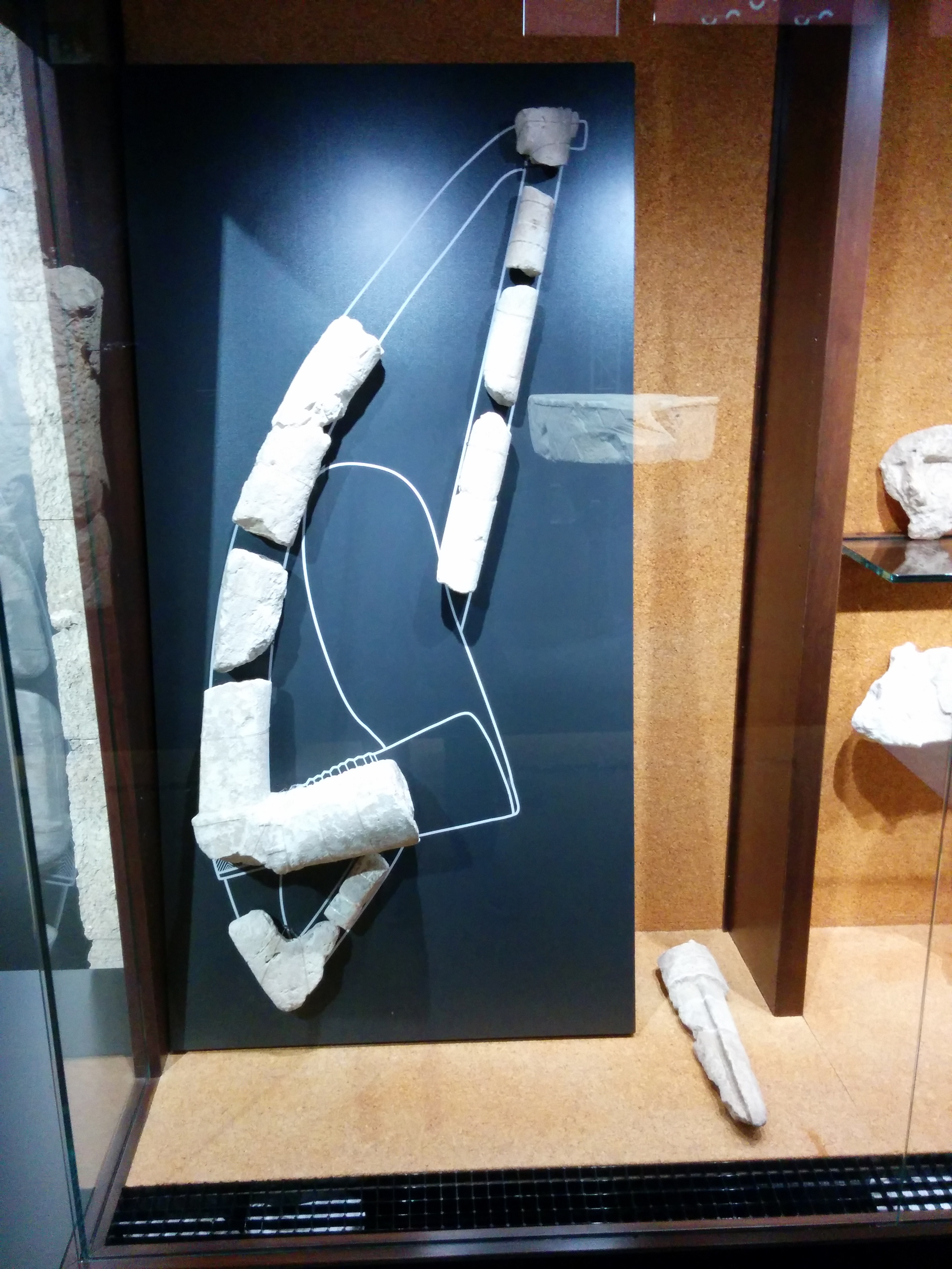 Bow of Gigante di Monte Prama - details